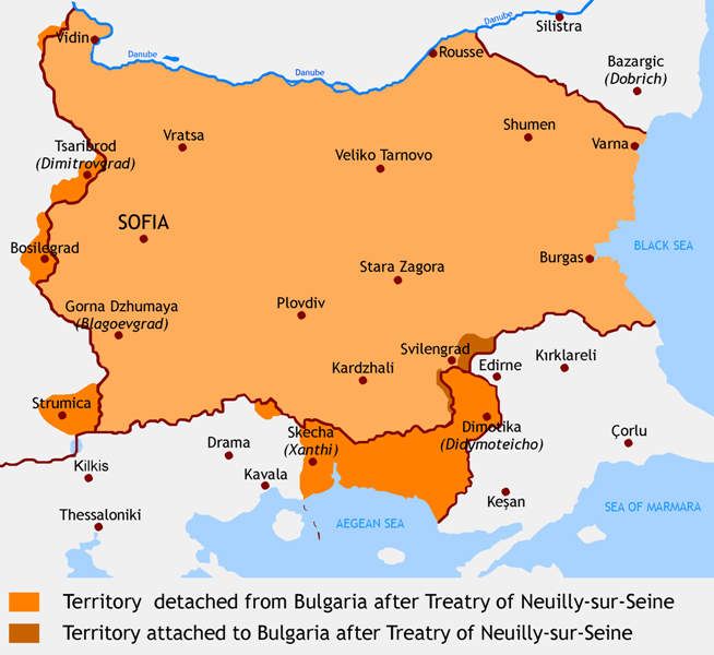 Bulgaria after Treatry of Neuilly-sur-Seine, 1919